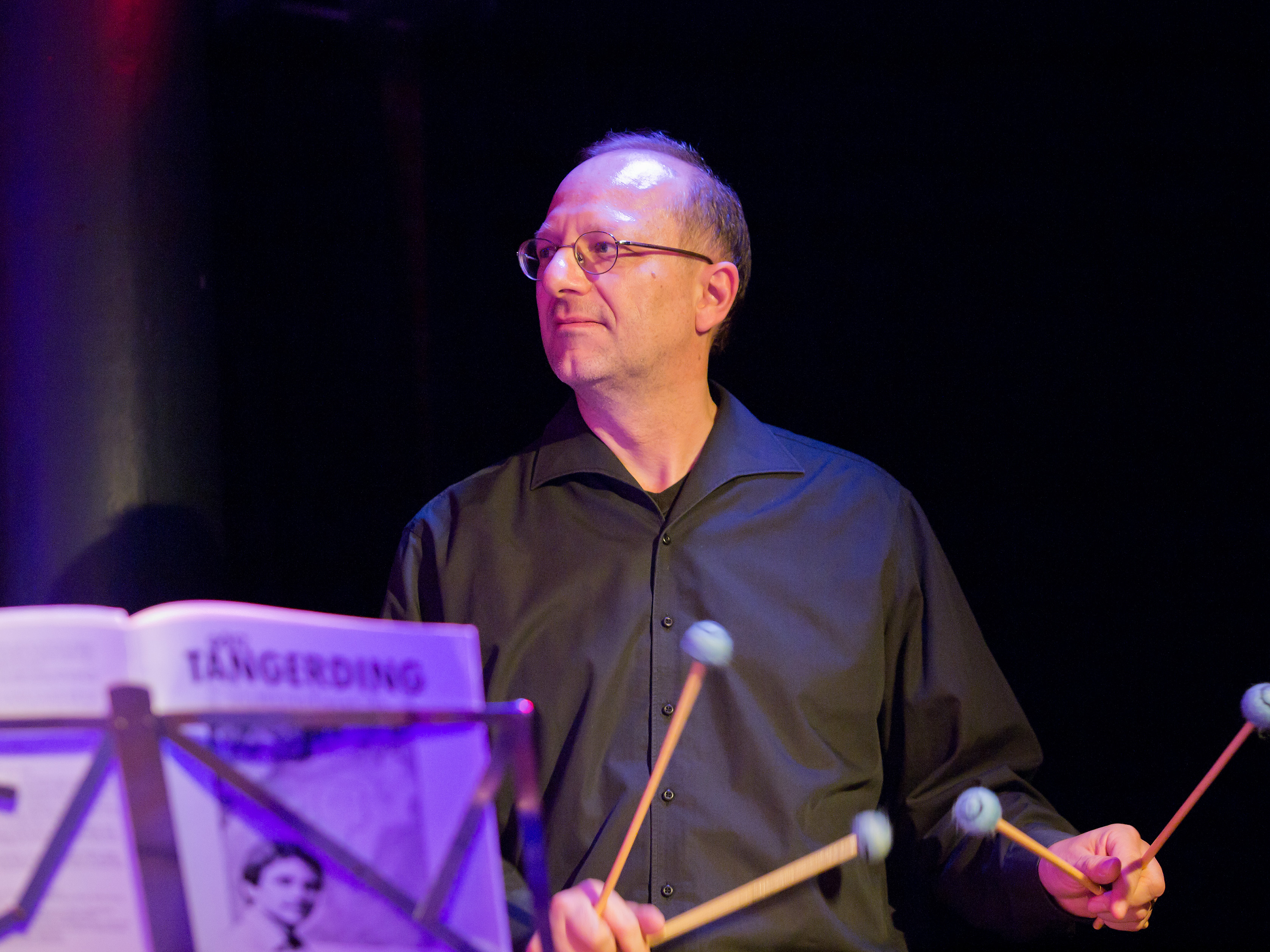 Wolfgang Lackerschmid, Jazz vibraphonist; Picture taken in Jazz Club Unterfahrt, Munich/Bavaria